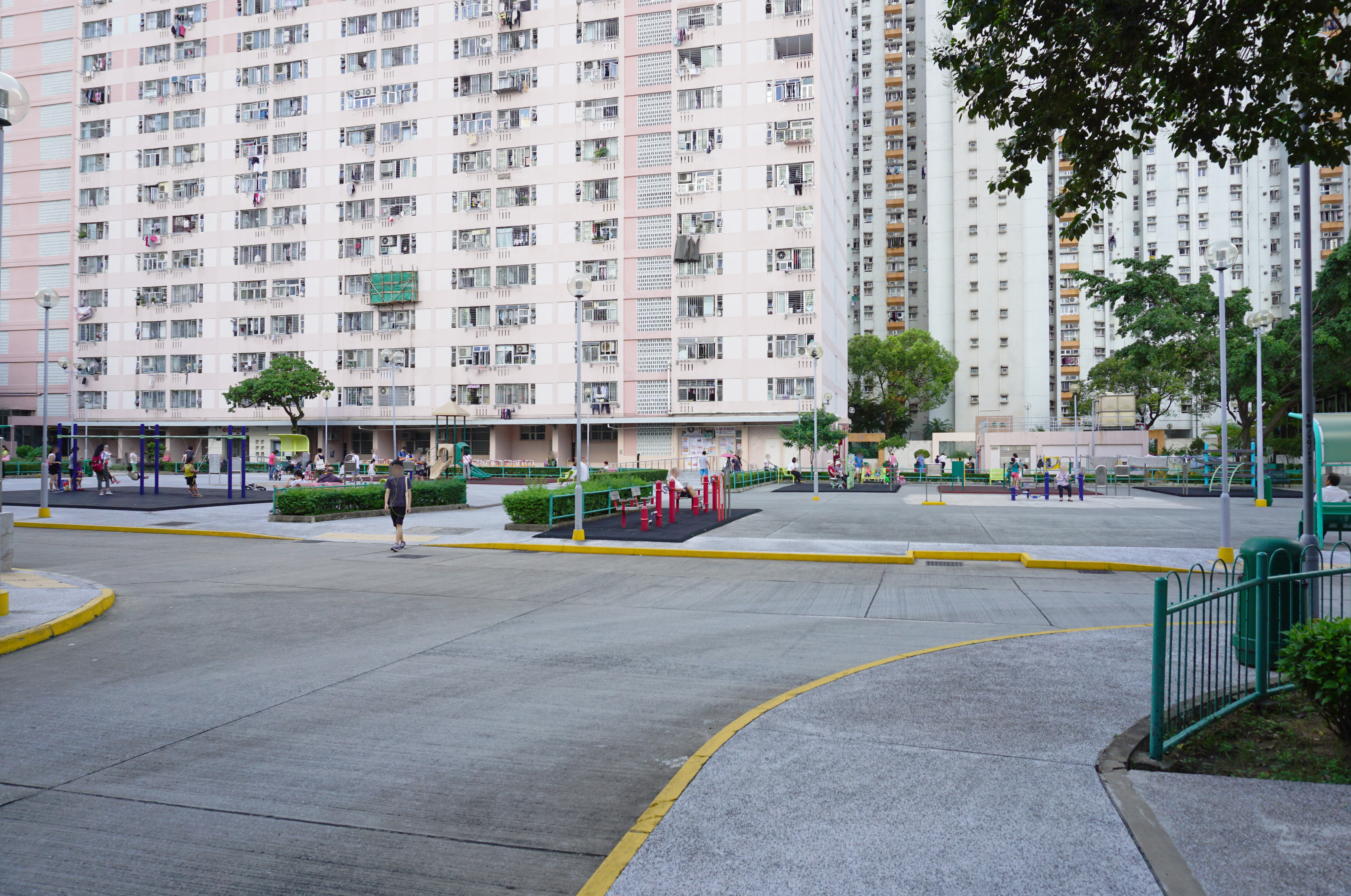 Yue Wan Estate in Chai Wan, Hong Kong.